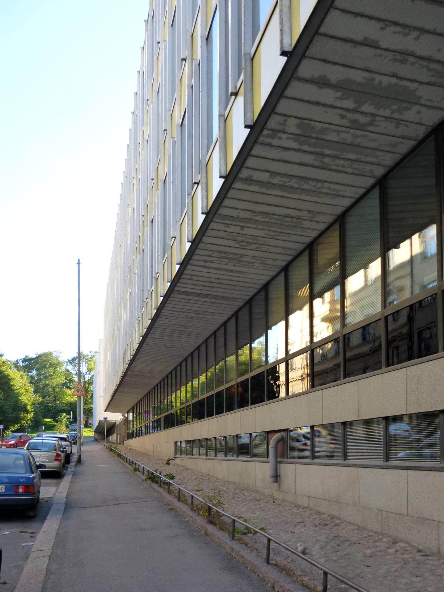 Finnish Ministry of Defence, Helsinki, Revell & Castre, 1961